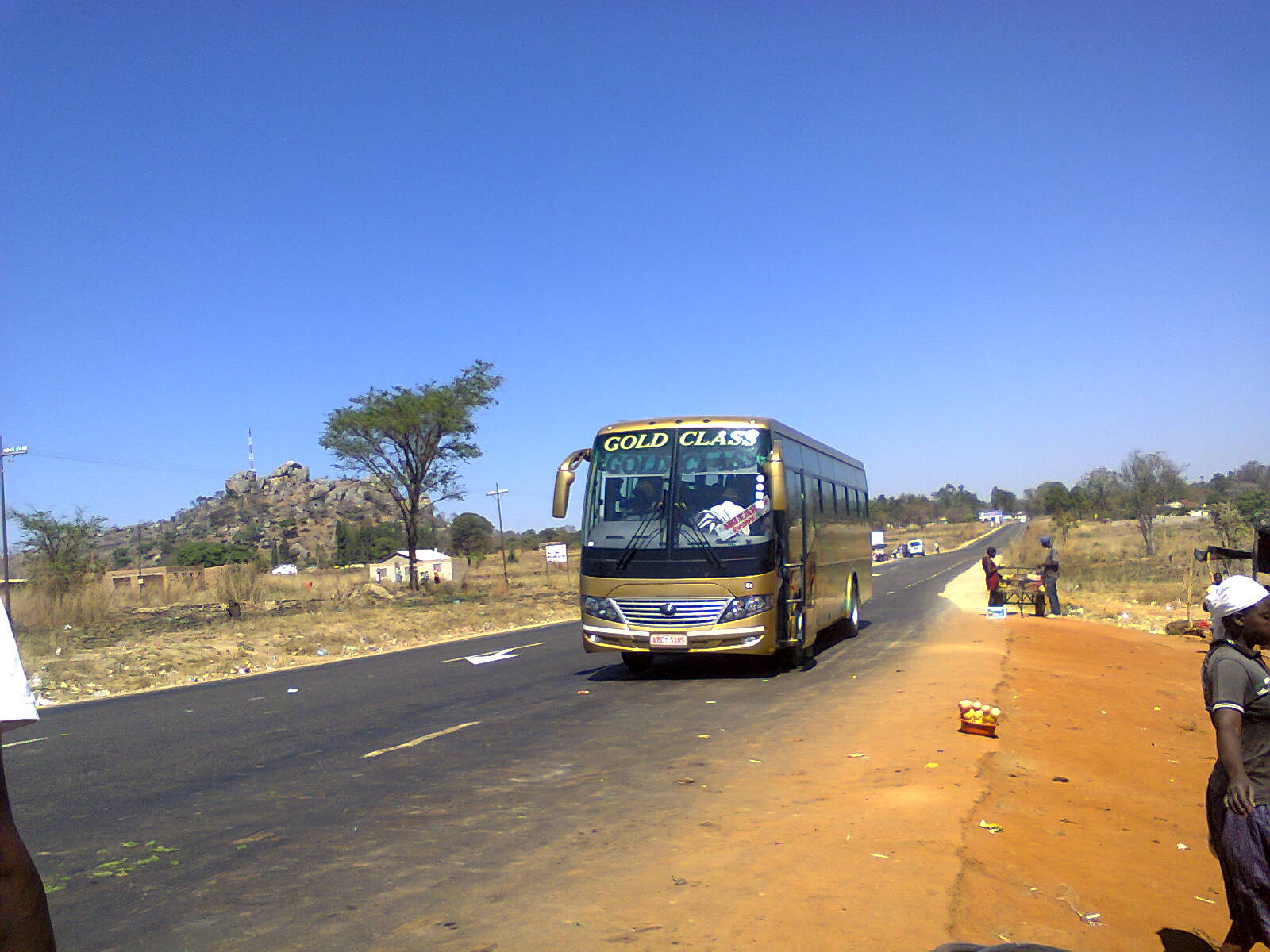 bus going to Mutare from Harare at Macheke bus stop This is an image with the theme "Africa on the Move or Transport" from: Zimbabwe